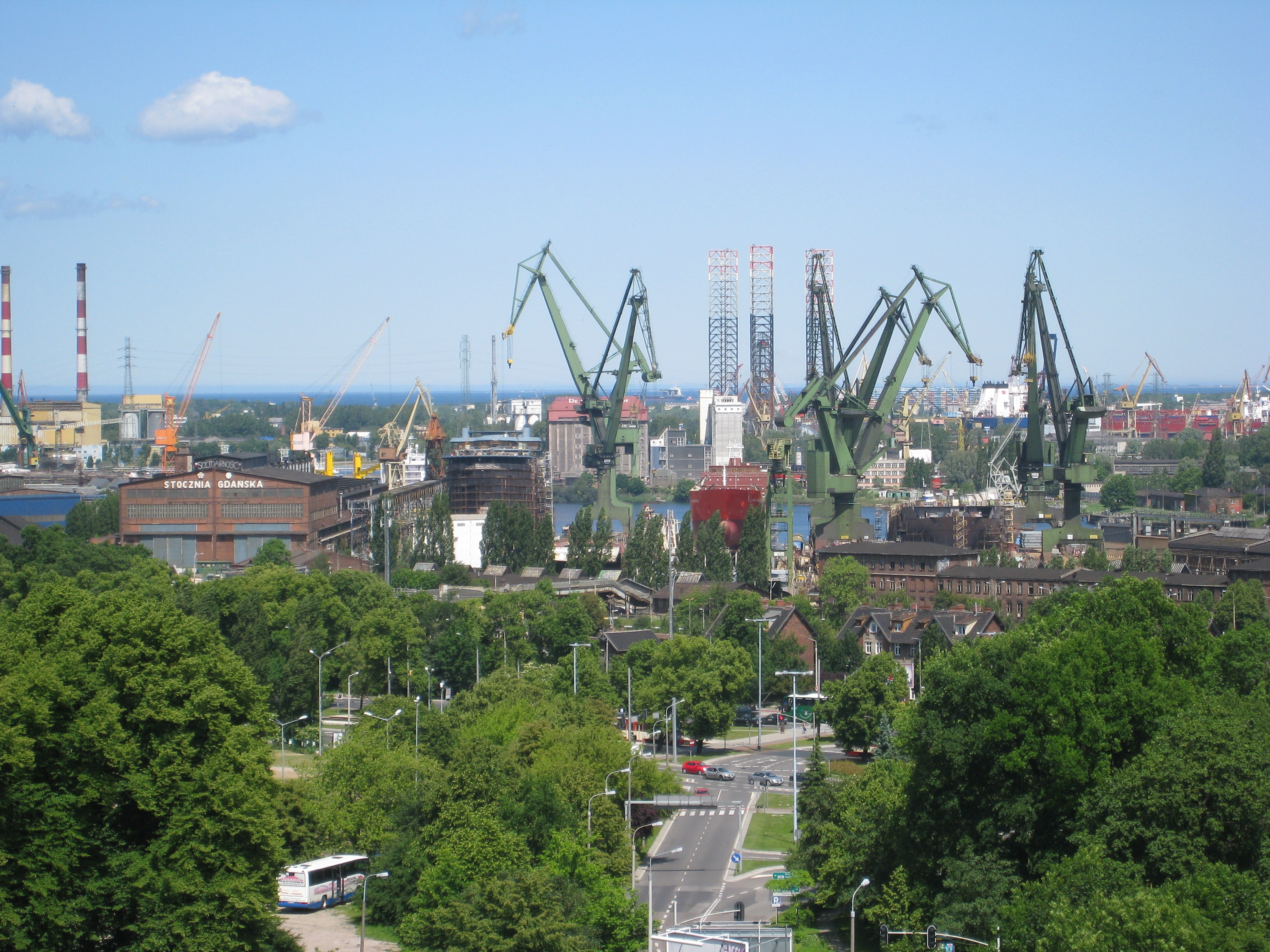 A view of the Gdansk Shipyard in 2009